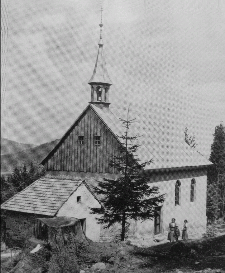 Hauswald pilgrimage chapel of Virgin Mary near village Srni, Bohemian Forest (Šumava), Czech Republic. Photo by unknown author, private collection, after 1930 (between years 1930 and 1948).